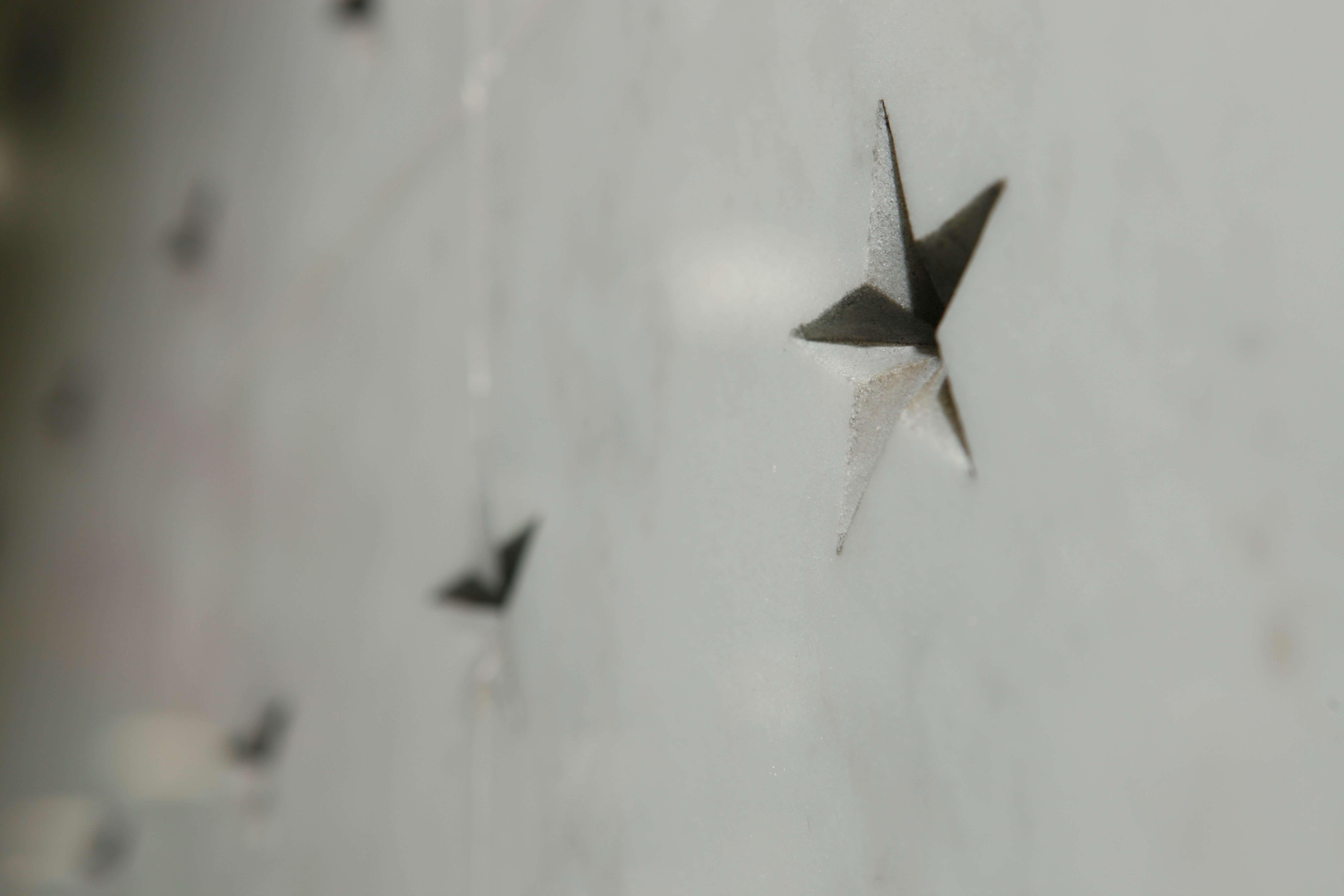 The Memorial Wall is on the north wall of the Original Headquarters Building lobby. This wall of 103 stars stands as a silent, simple memorial to those CIA officers who have made the ultimate sacrifice. The Memorial Wall was commissioned by the CIA Fine Arts Commission in May 1973 and sculpted by Harold Vogel in July 1974. To learn more about the CIA, visit